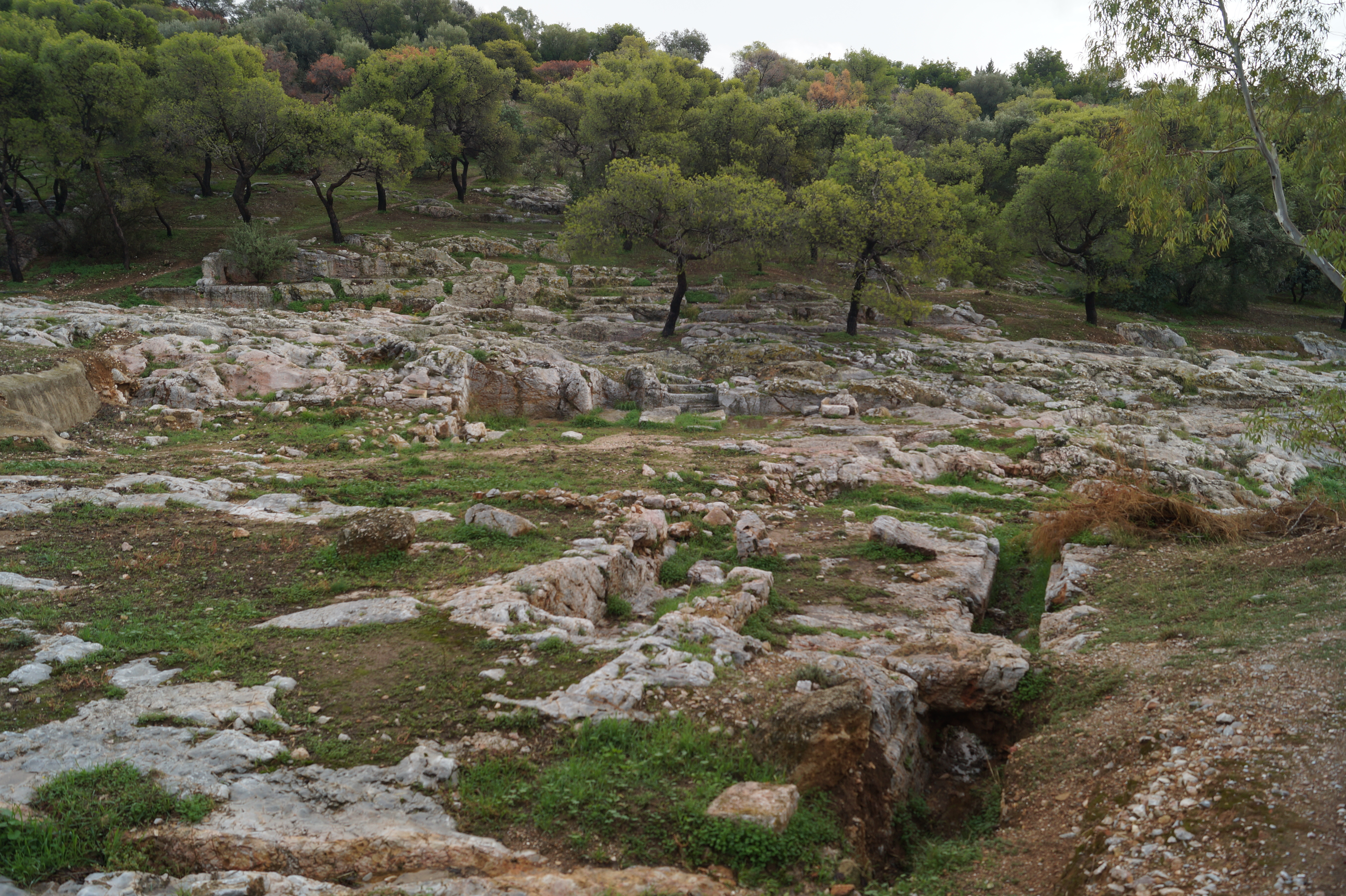 Athens, Greece: Terrace cuttings and stairs of the ancient deme of Koile.